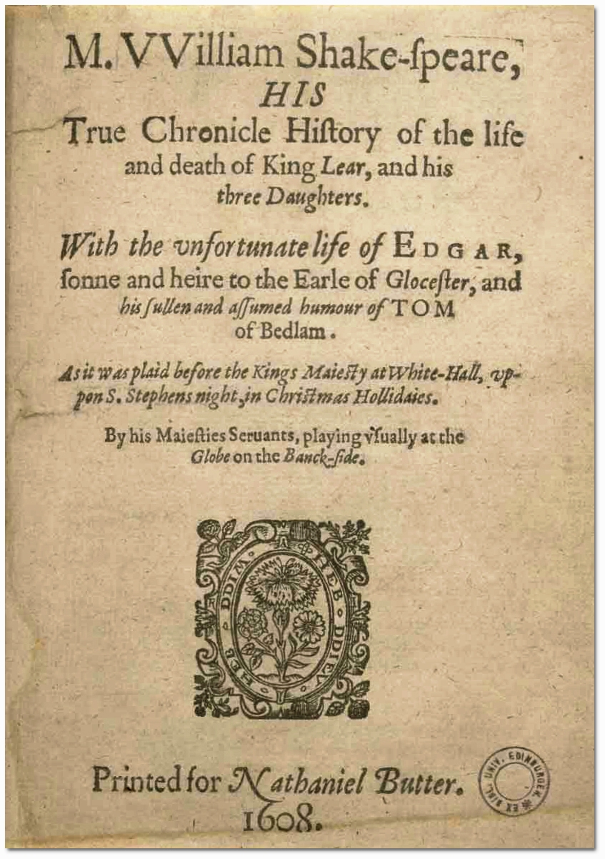 This is the Pavier mis-dated pirated version of Shakespeare's 1608 quarto